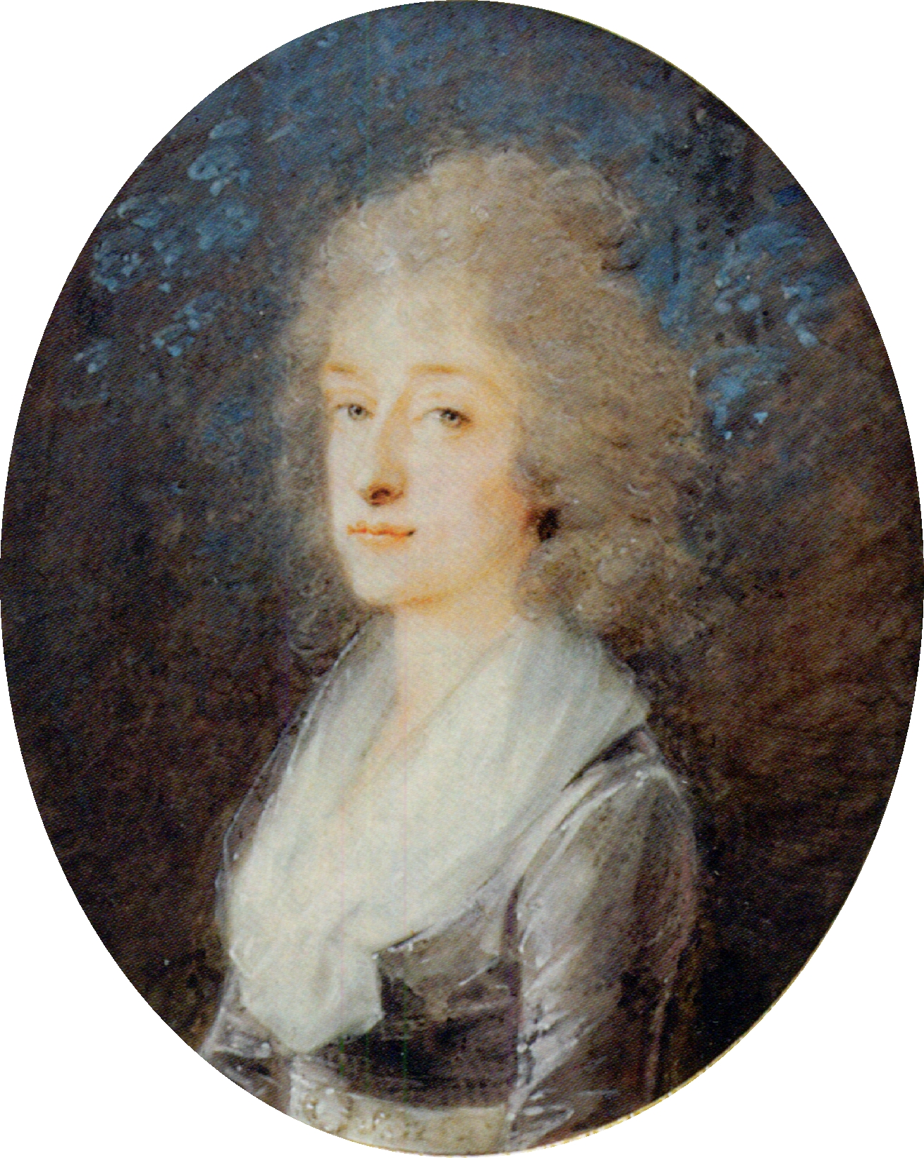 Portrait of a Lady, facing left in grey silk dress with white muslin fichu and silver-embroidered belt, grey-powdered curly hair; foliage background